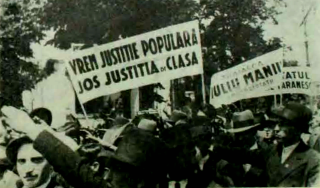 Communists from the various Sectors of Bucharest, attending a rally of the National Peasants' Party (Sunday, May 31, 1936). The photo shows a mix of signs representing demands by both groups. On the left, the communist slogan: Vrem justiție populară / Jos justiția de clasă ("We demand popular justice / down with class justice"); on the right, Peasantist signs celebrating Iuliu Maniu and the "Peasant State". Image dates back to from a period when National Peasantists used the Roman salute (seen at the forefront) as a greeting; on this usage, see: "Statutul Organizației 'Tineretului Naț.-Țărănesc'", in Chemarea Tinerimei Române, Issue 44/1929, p. 7; C. I. O., "Ne paște pericolul. Cu Târnăcoapele", in Gazeta Transilvaniei, Issue 44/1936, pp. 1–2.